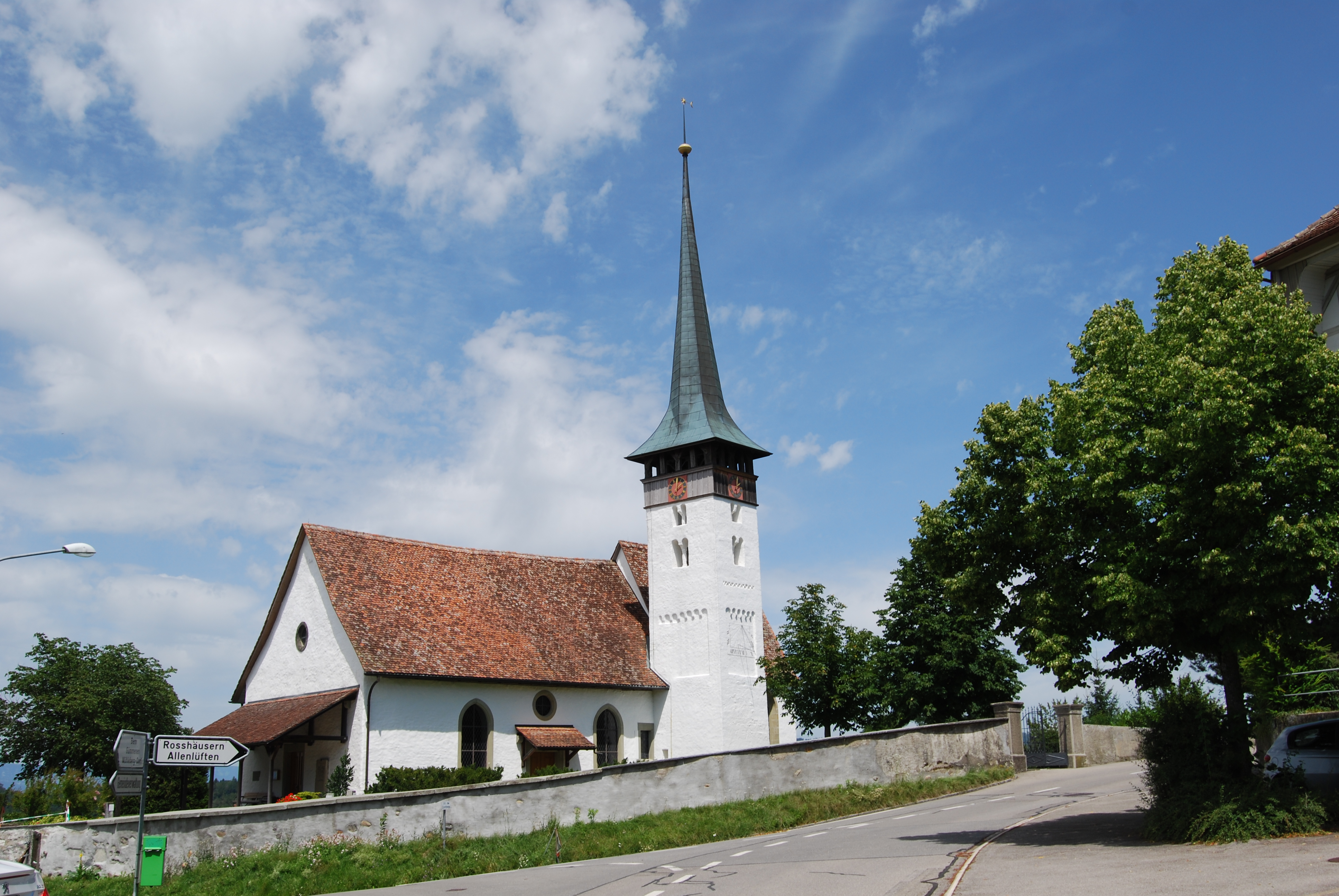 Church of Mühleberg, canton of Bern, Switzerland